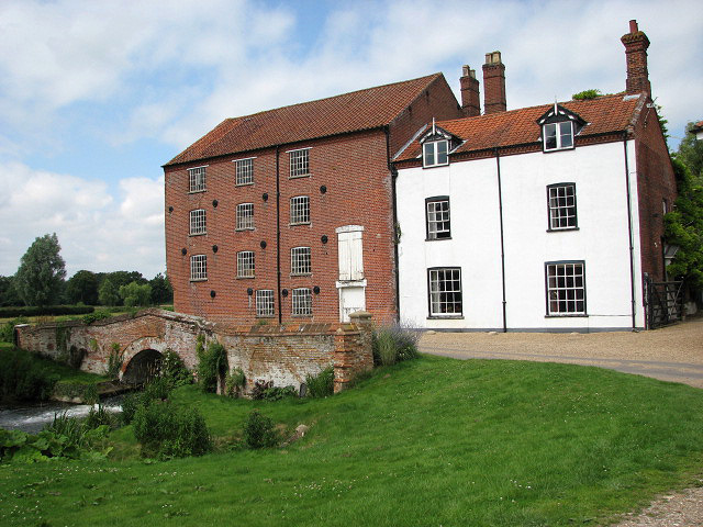 An idyllic location Bintree Mill, miller's house and mill bridge viewed across Mill Road. Bintree Mill with the adjoining miller's house and its own farm is situated by the River Wensum, only about 1.5 kilometres distant from the village of Bintree but nevertheless isolated, surrounded by pastureland; the narrow, tree-lined road snakes past it. Remodelled in the 19th century, not much remains of the original C18 building which featured in the 1997 BBC TV series "Mill on the Floss", based on the book by George Eliot and starring Emily Watson and Bernard Hill. For the film the walls of the mills were blackened in order to give it a distressed appearance. In 1947 the waterwheel was removed and the wheelhouse floor concreted over. Motive power was moved to electricity; the mill ceased operating in 1980.